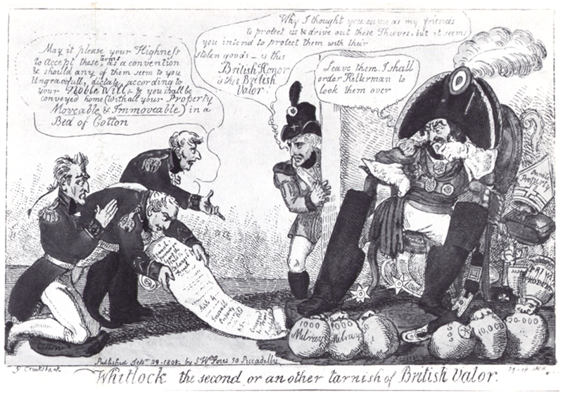 Whitlock the second or another tarnish of British Valor